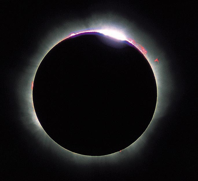 The 1999 Solar eclipse in France (View 6).